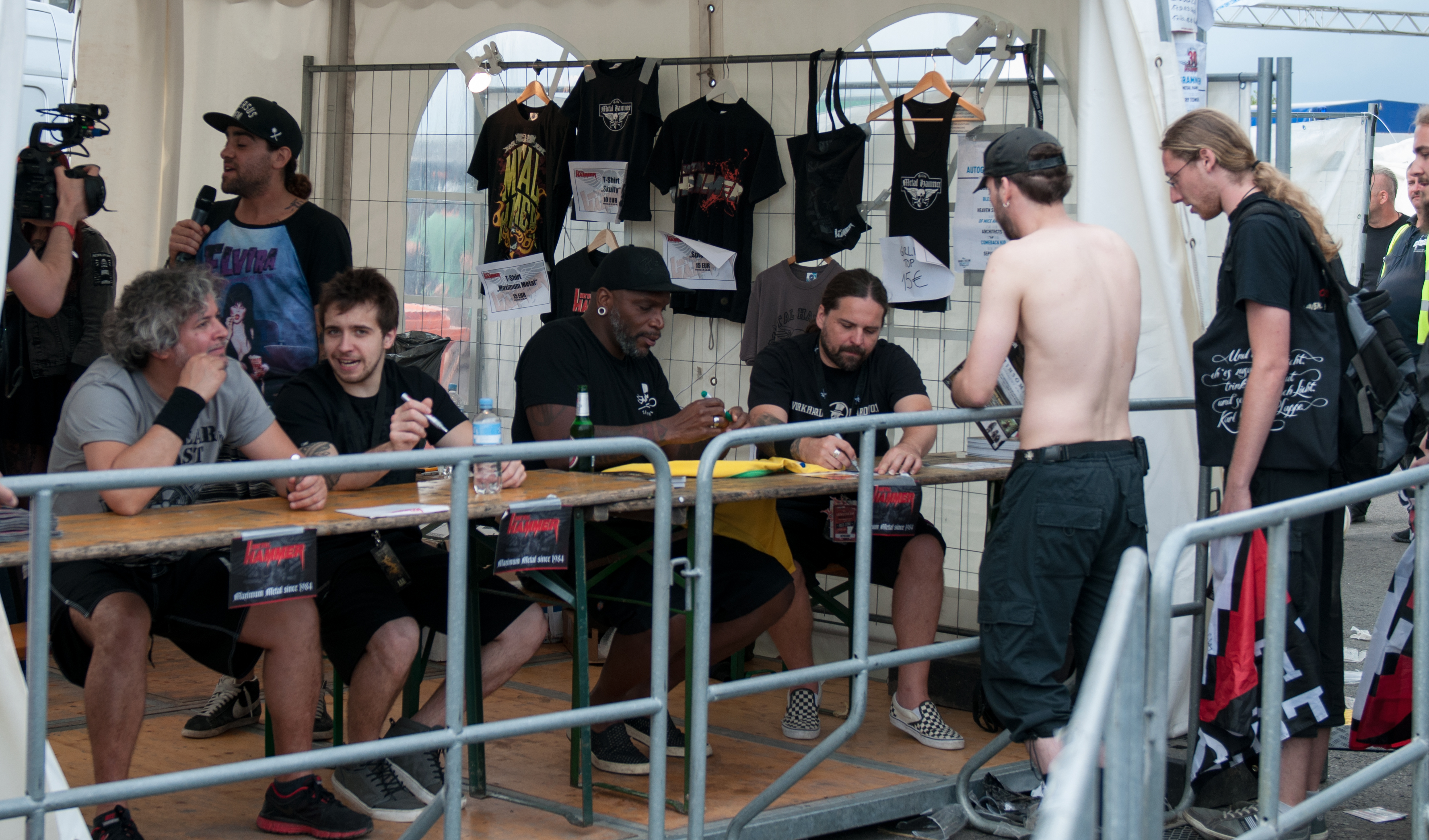 Sepultura at Vainstream Rockfest 2014